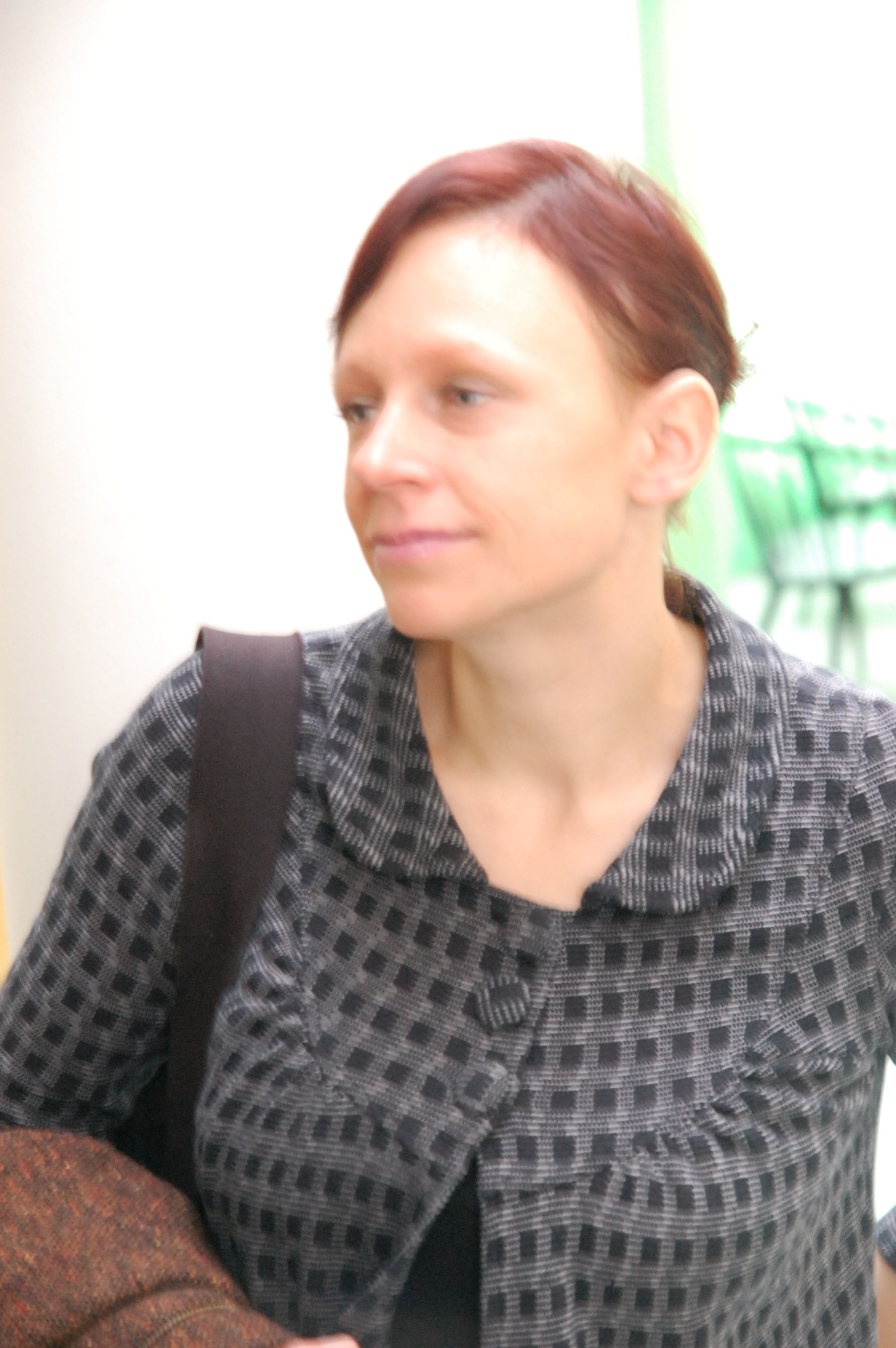 Sara Larsson